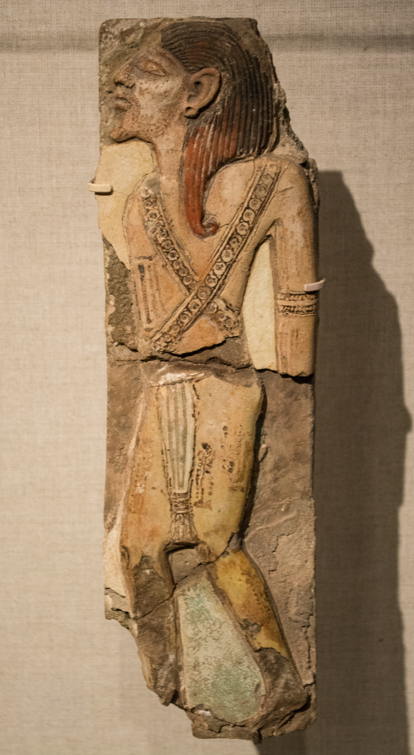 Faience tile depicting a tattooed Libyan chief. Designed in Egypt circa 1184 to 1153 BC. Found at Tell el-Yahudiya. Part of Ramesses III's throne.